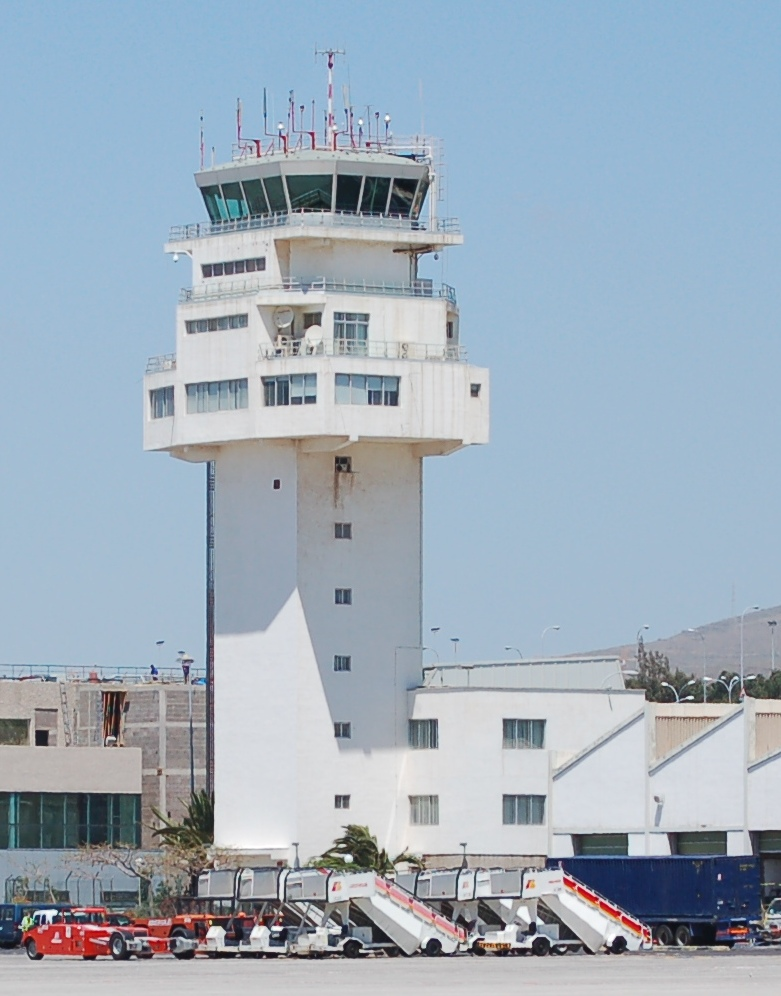 Control Tower of GCTS viewed from airport's platform.